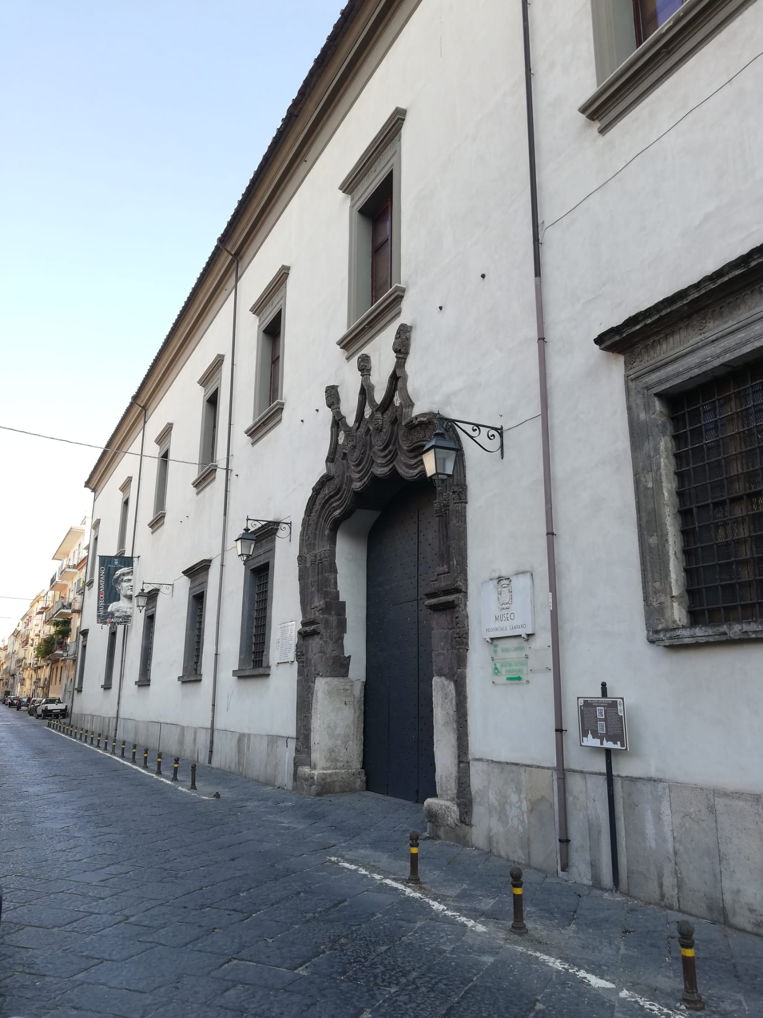 Palazzo Antignano in via Roma, Capua, Italy